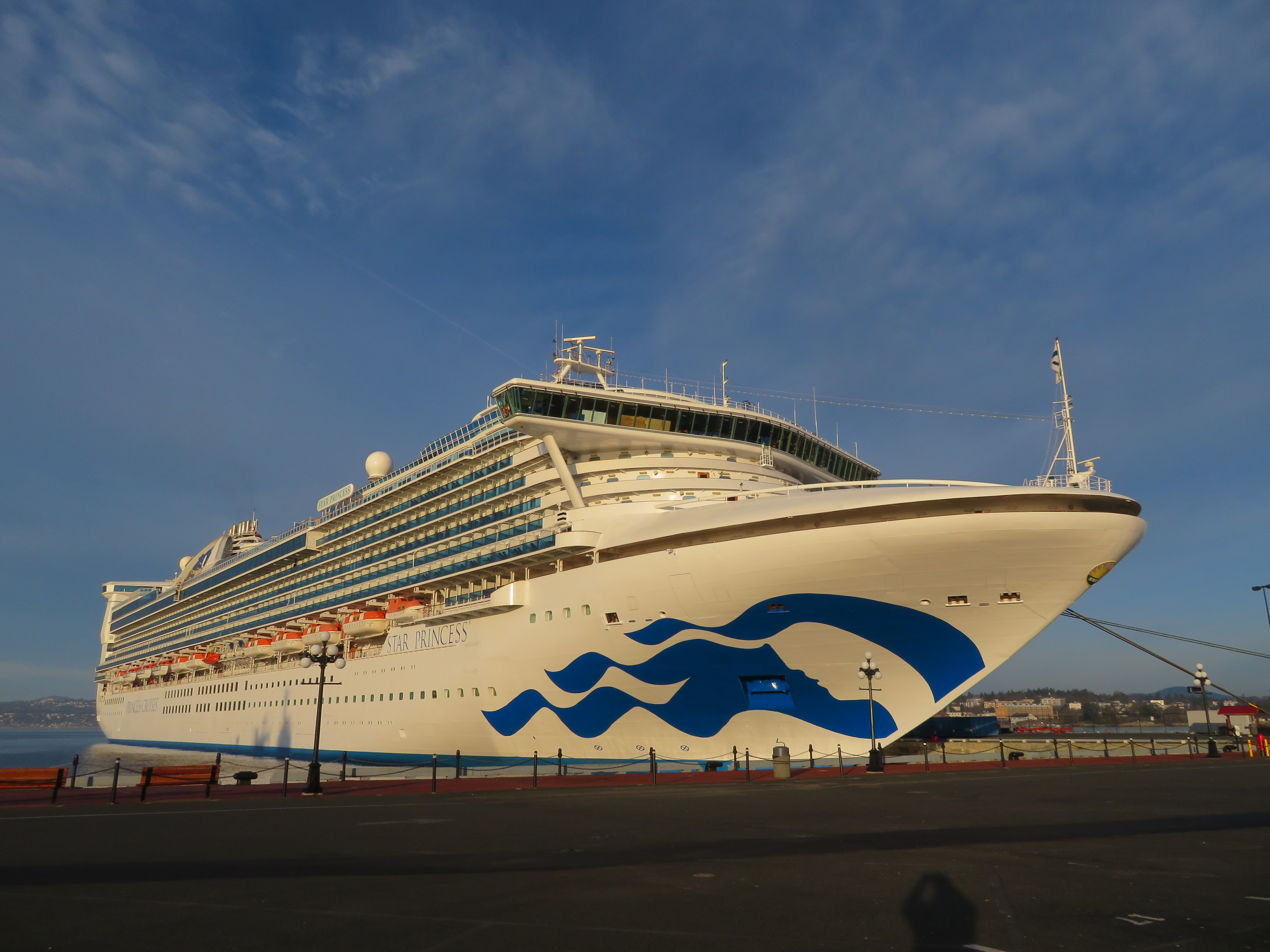 2017 12 13 Star Princess in Victoria 10